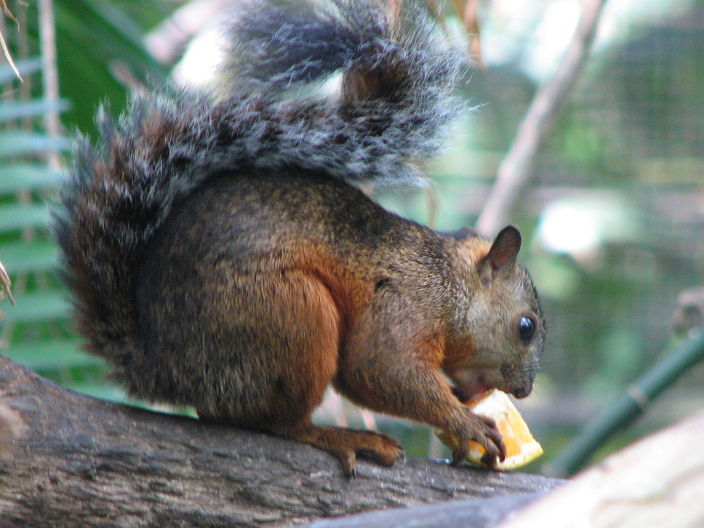 Variegated Squirrel (Sciurus variegatoides), San Jose, Costa Rica